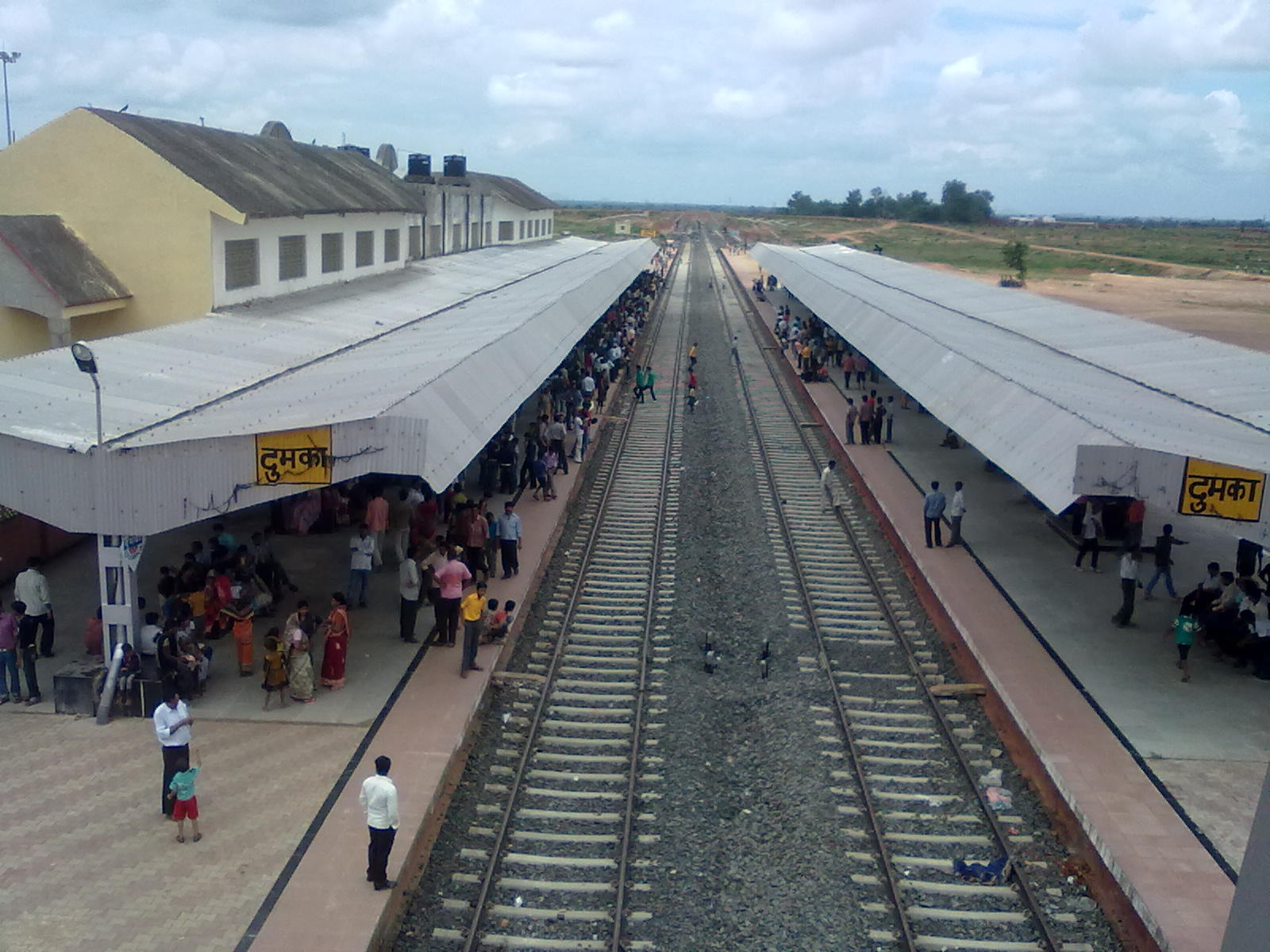 Dumka Railway Station View from Over Bridge